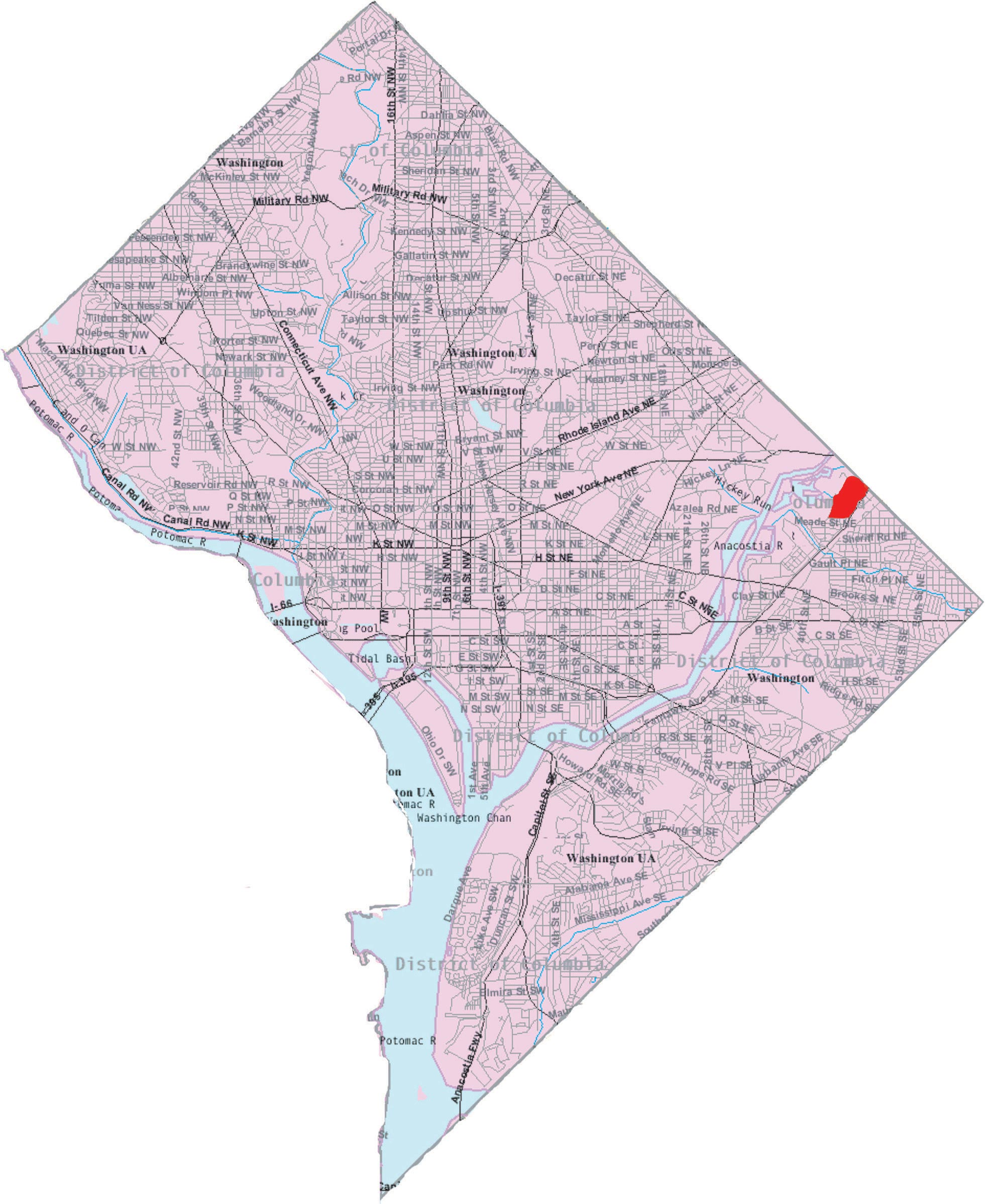 This image is a modified version of a self-generated reference map from the U.S. Census Bureau's American Factfinder at by Wikipedia user Msclguru.